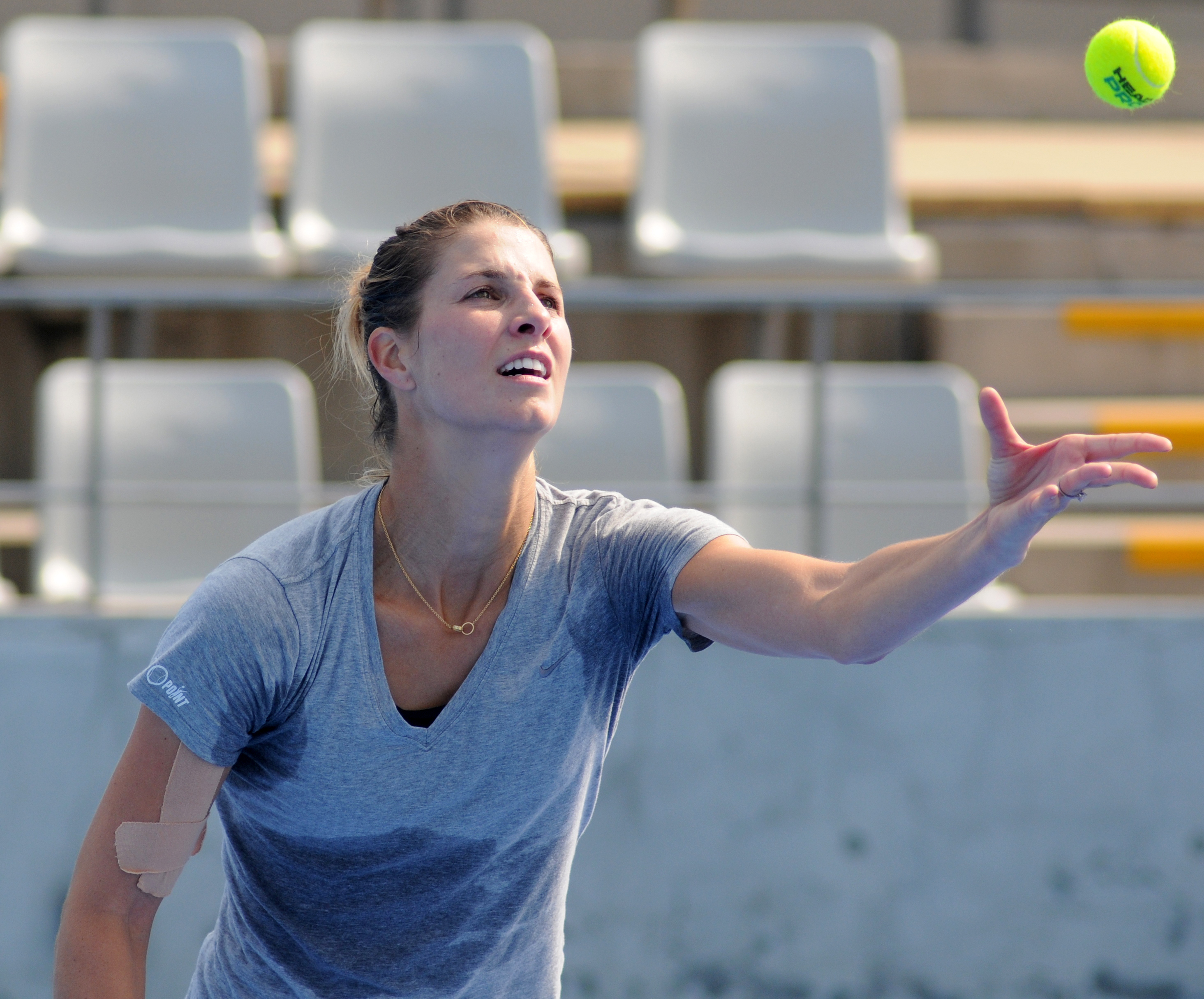 Mandy Minella at the 2014 China Open